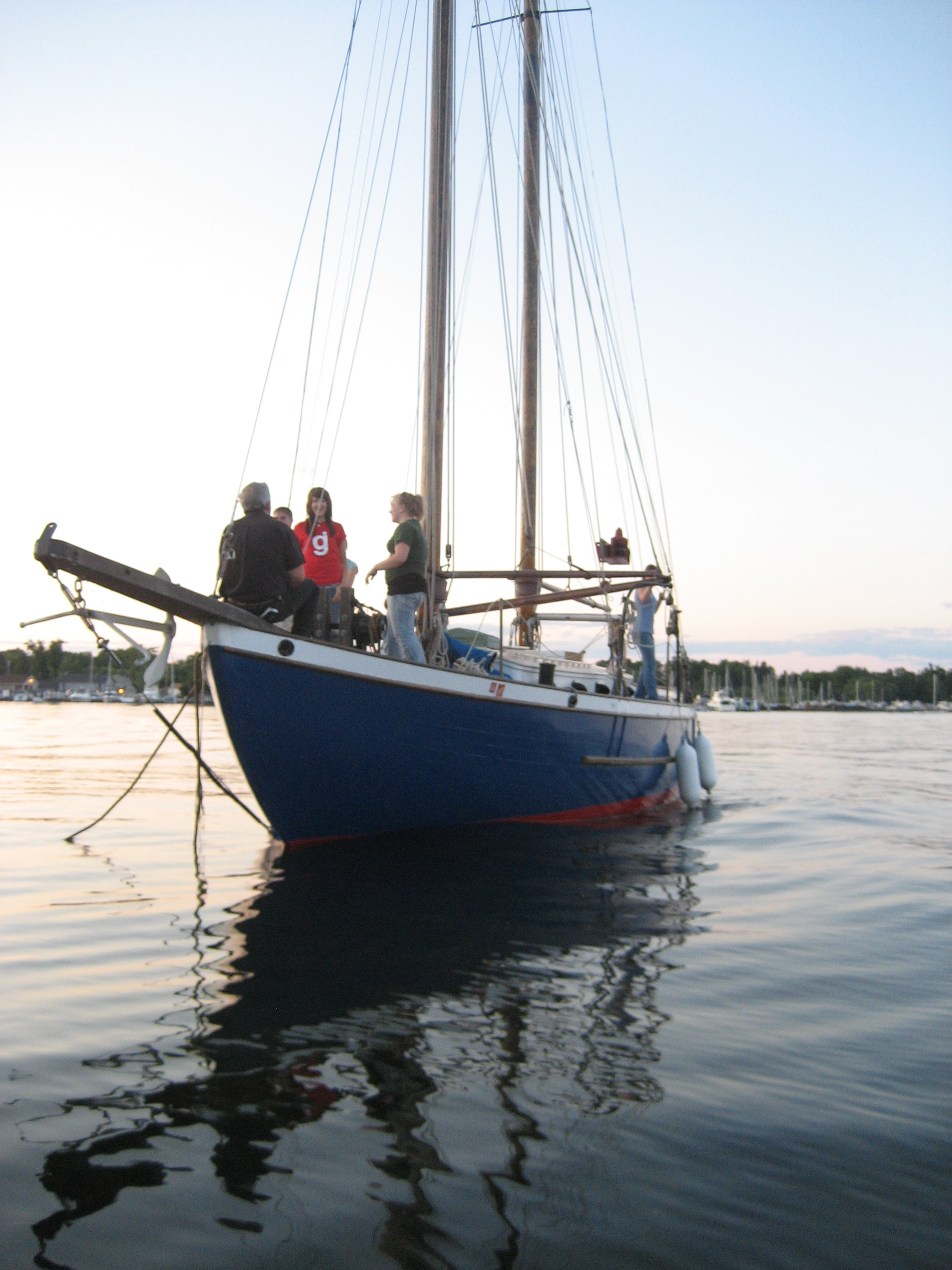 SSS 303 Lotus at Mooring